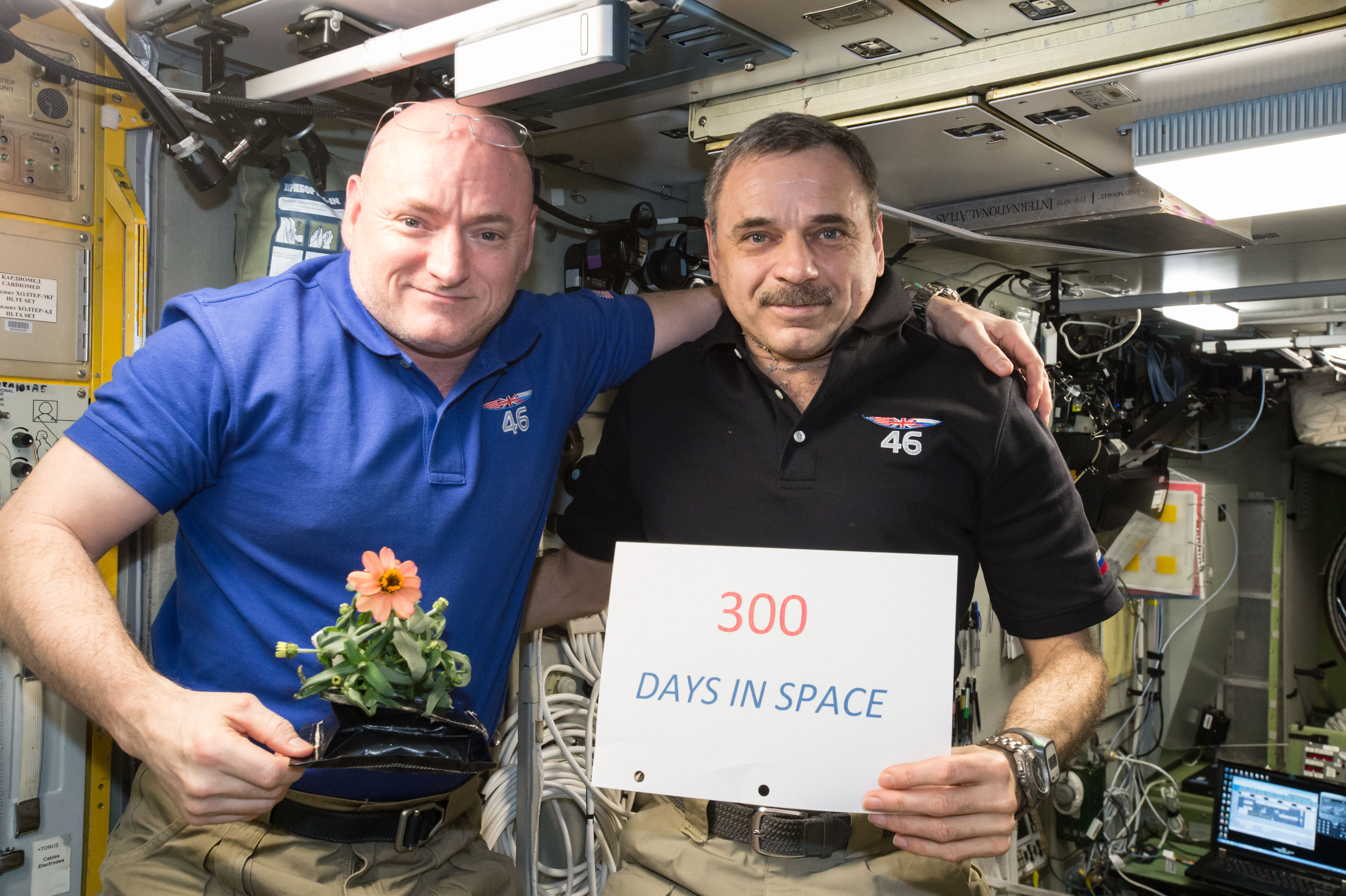 One-year mission crew members Scott Kelly of NASA (left) and Mikhail Kornienko of Roscosmos (right) celebrated their 300th consecutive day in space on Jan. 21, 2016. The pair will spend a total of 340 days aboard the International Space Station as scientists seek to understand what happens to the human body while in microgravity for extreme lengths of time.